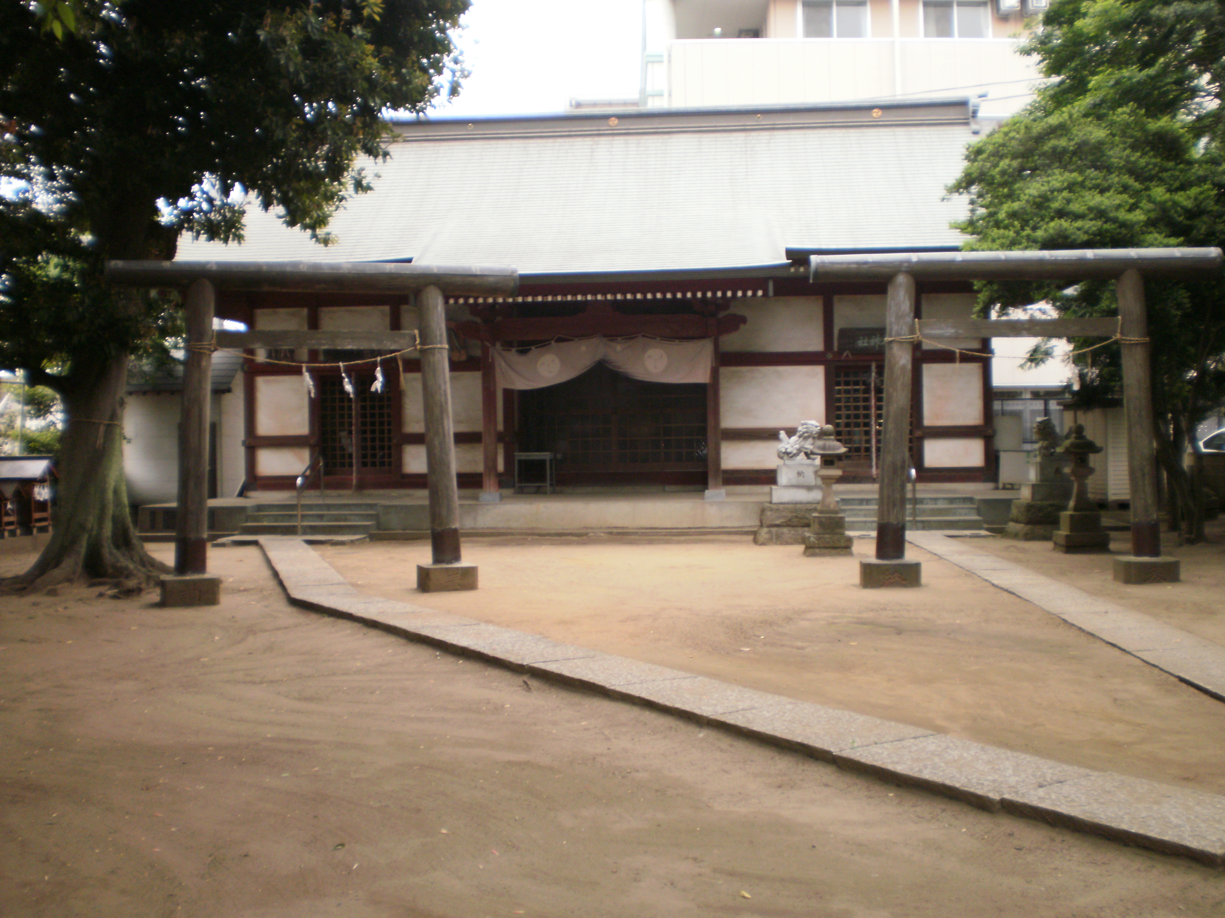 Anagawa shrine